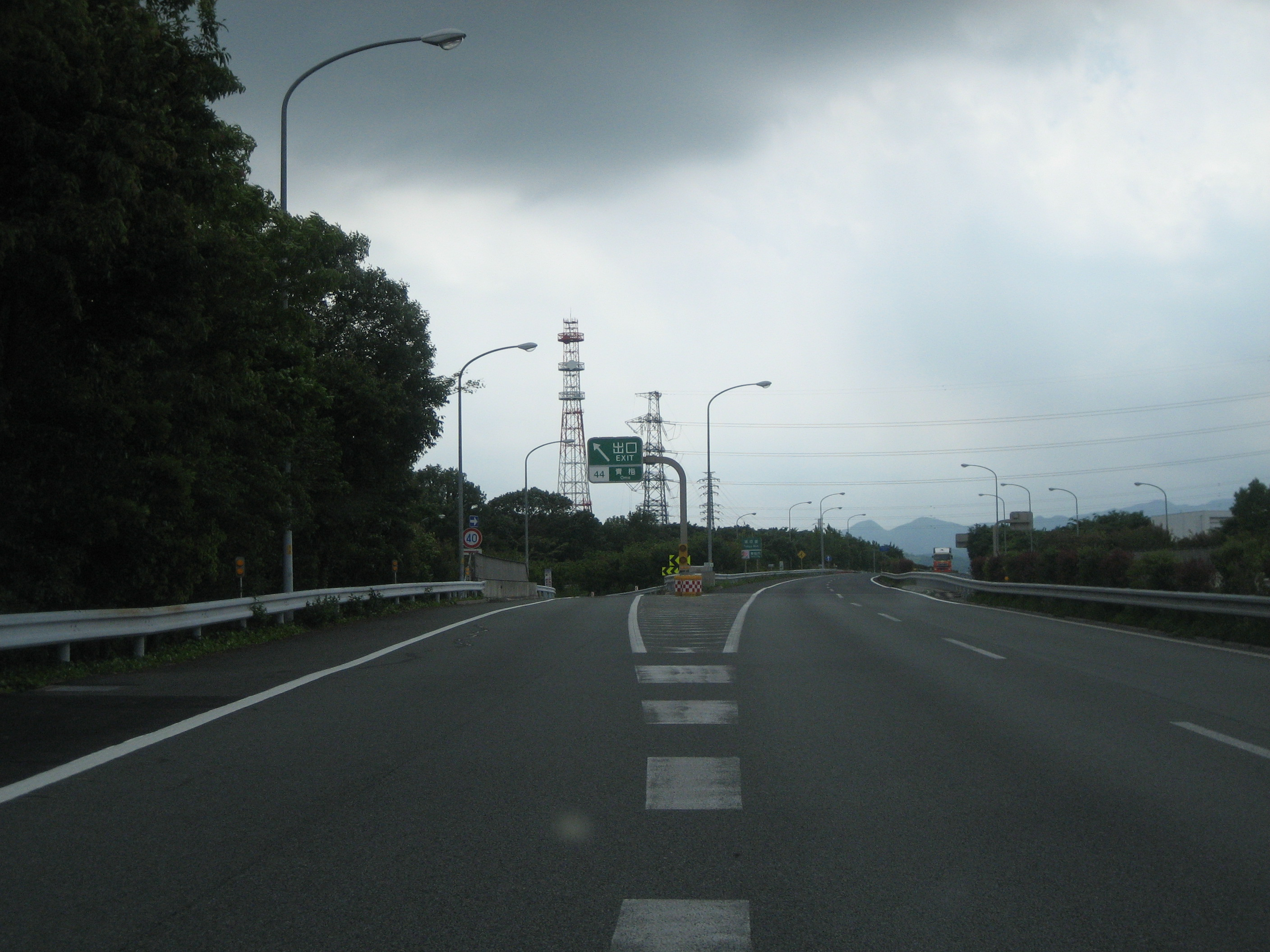 Ome Interchange on the Ken-o Expressway